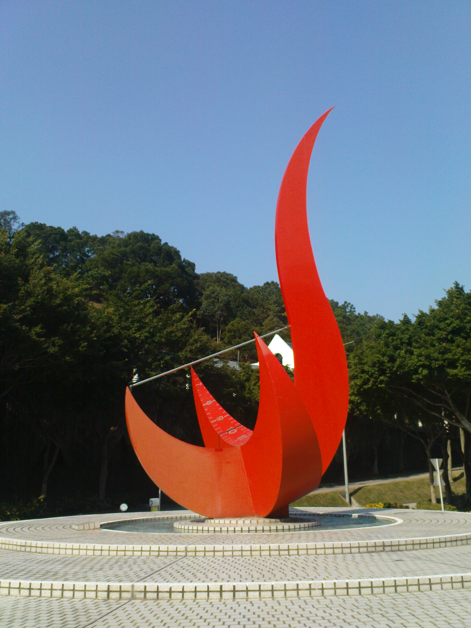 Potrait of the Sundial at HKUST